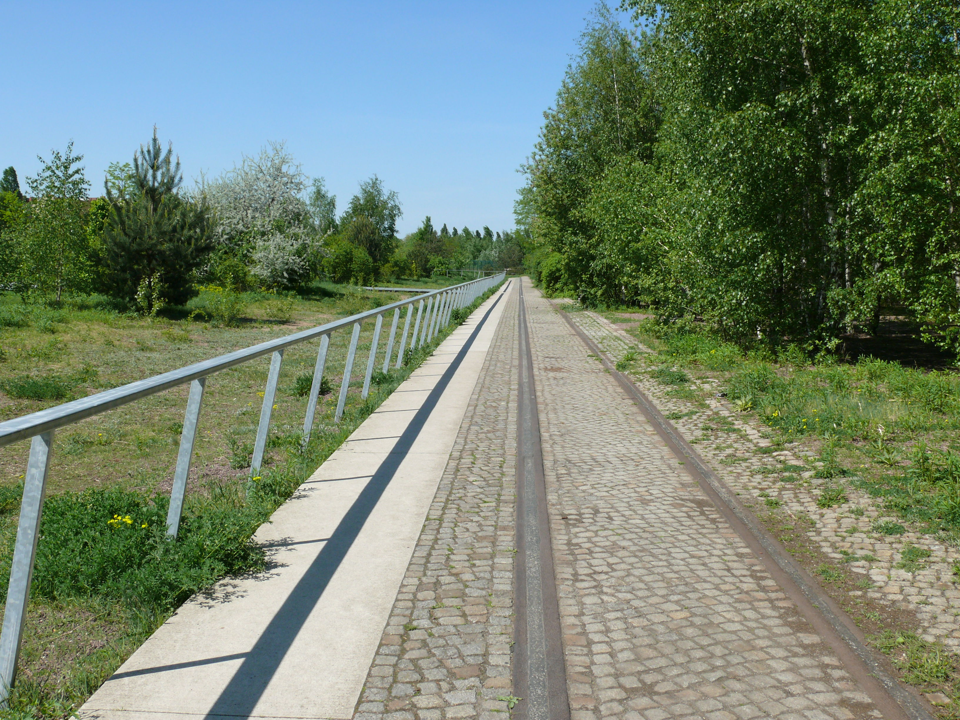 Park am Nordbahnhof rails